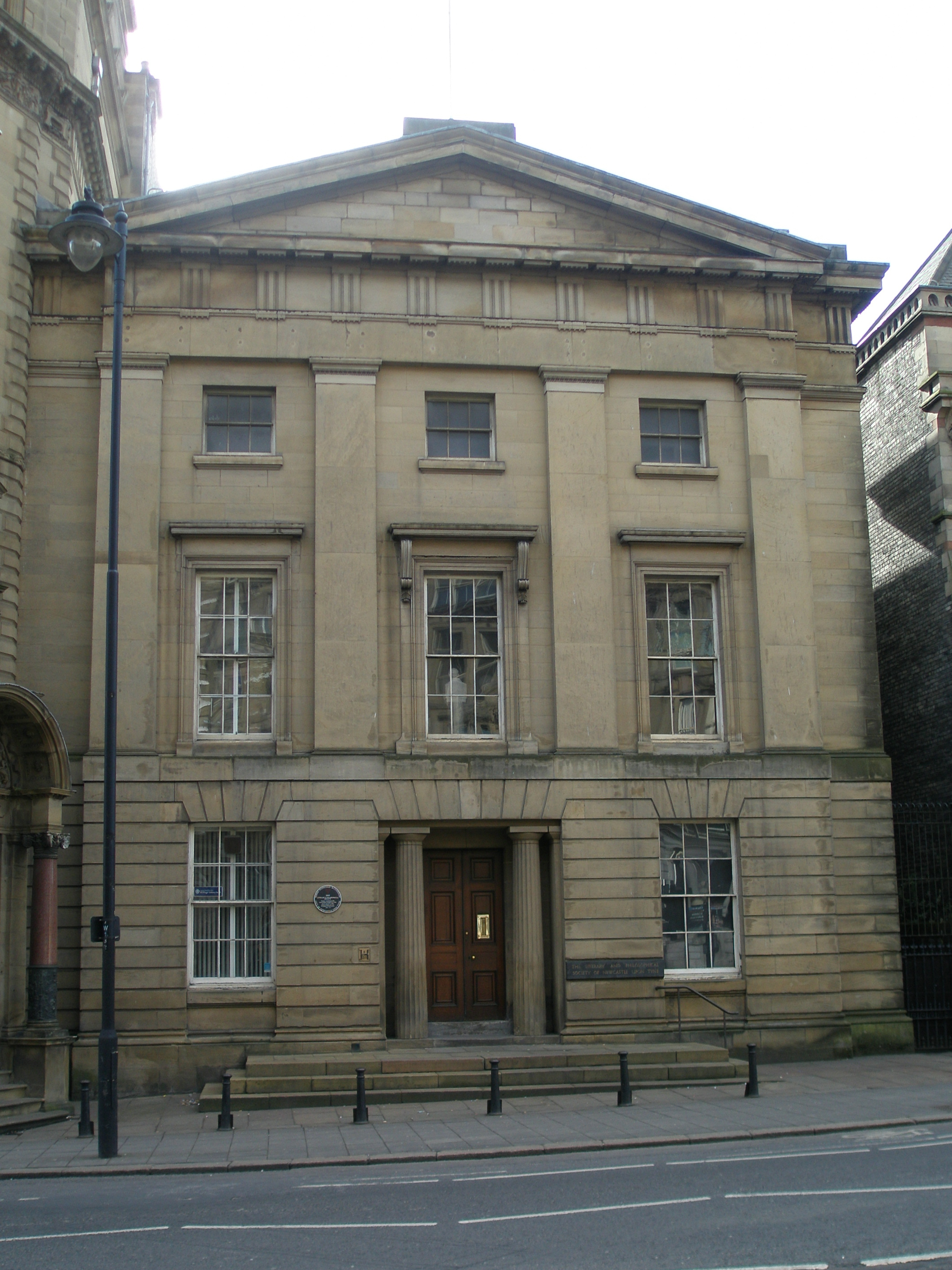 Depicted place: Literary and Philosophical Society of Newcastle upon Tyne